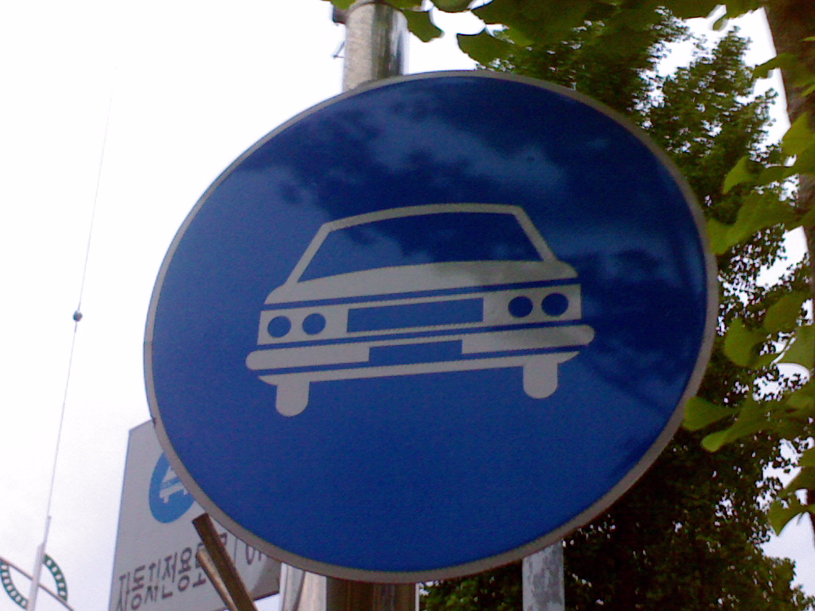 Korean Sign - Vehicles Only (older)